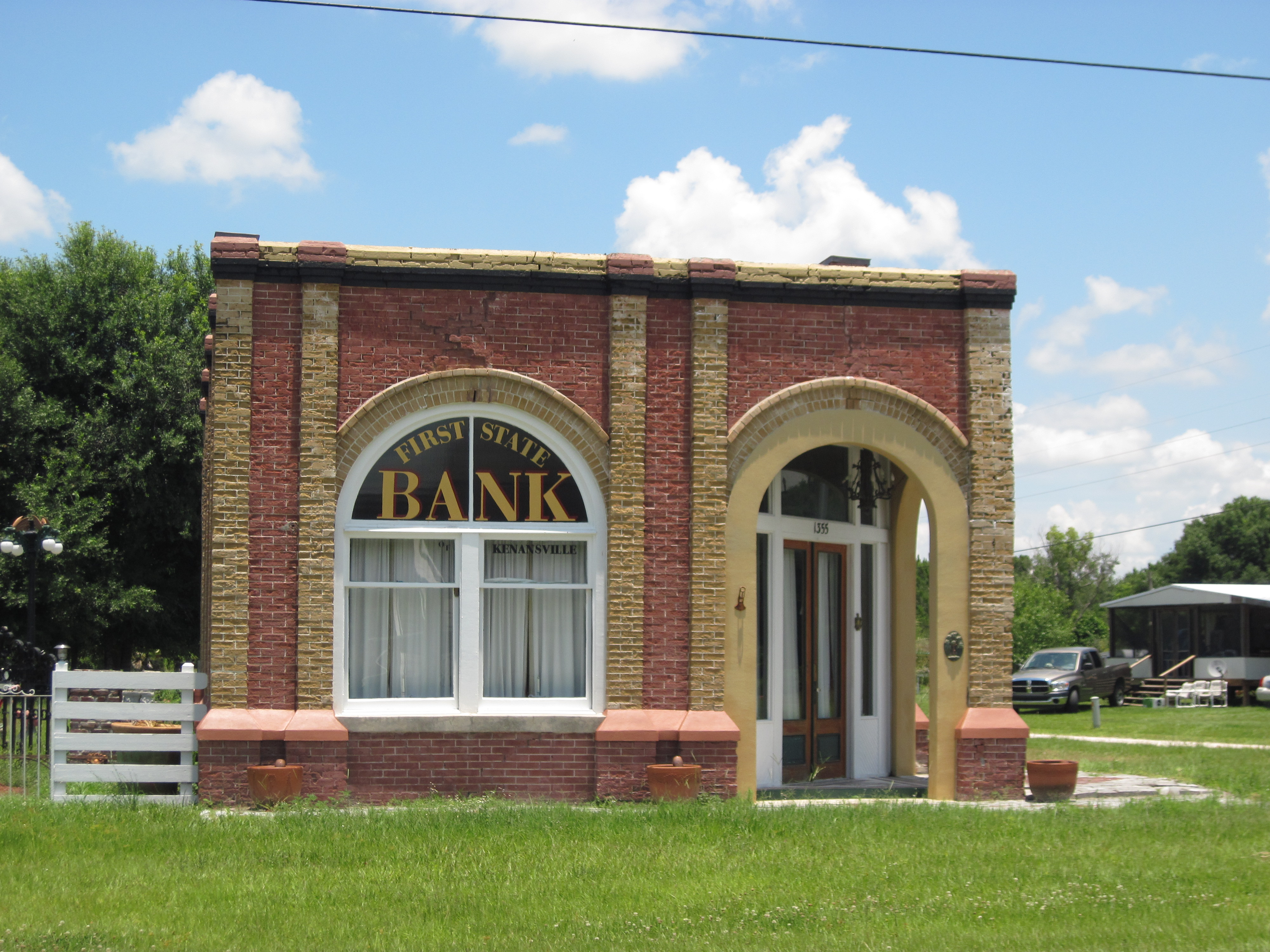 The restored Bank of Kenansville, Florida